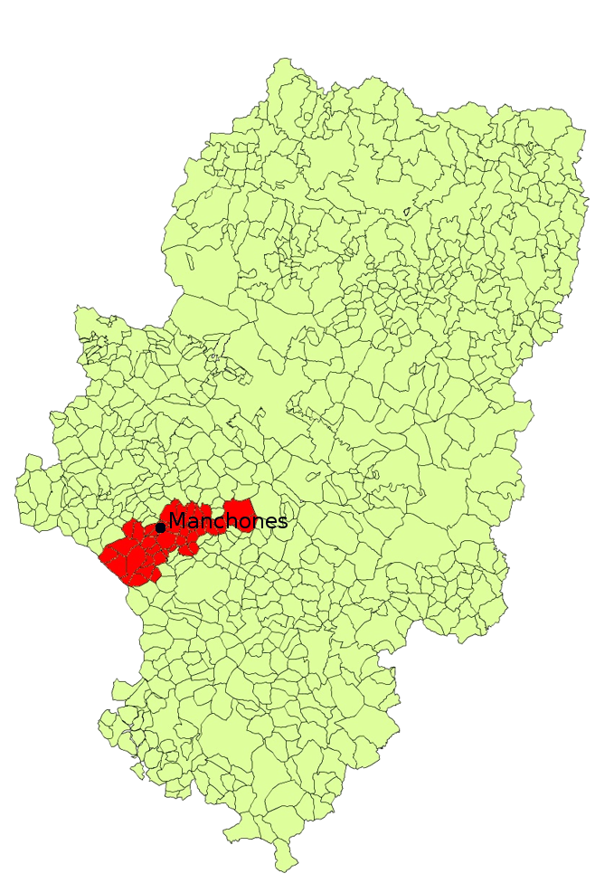 Location of Manchones within Aragon, derived from File:Campo de Daroca.png